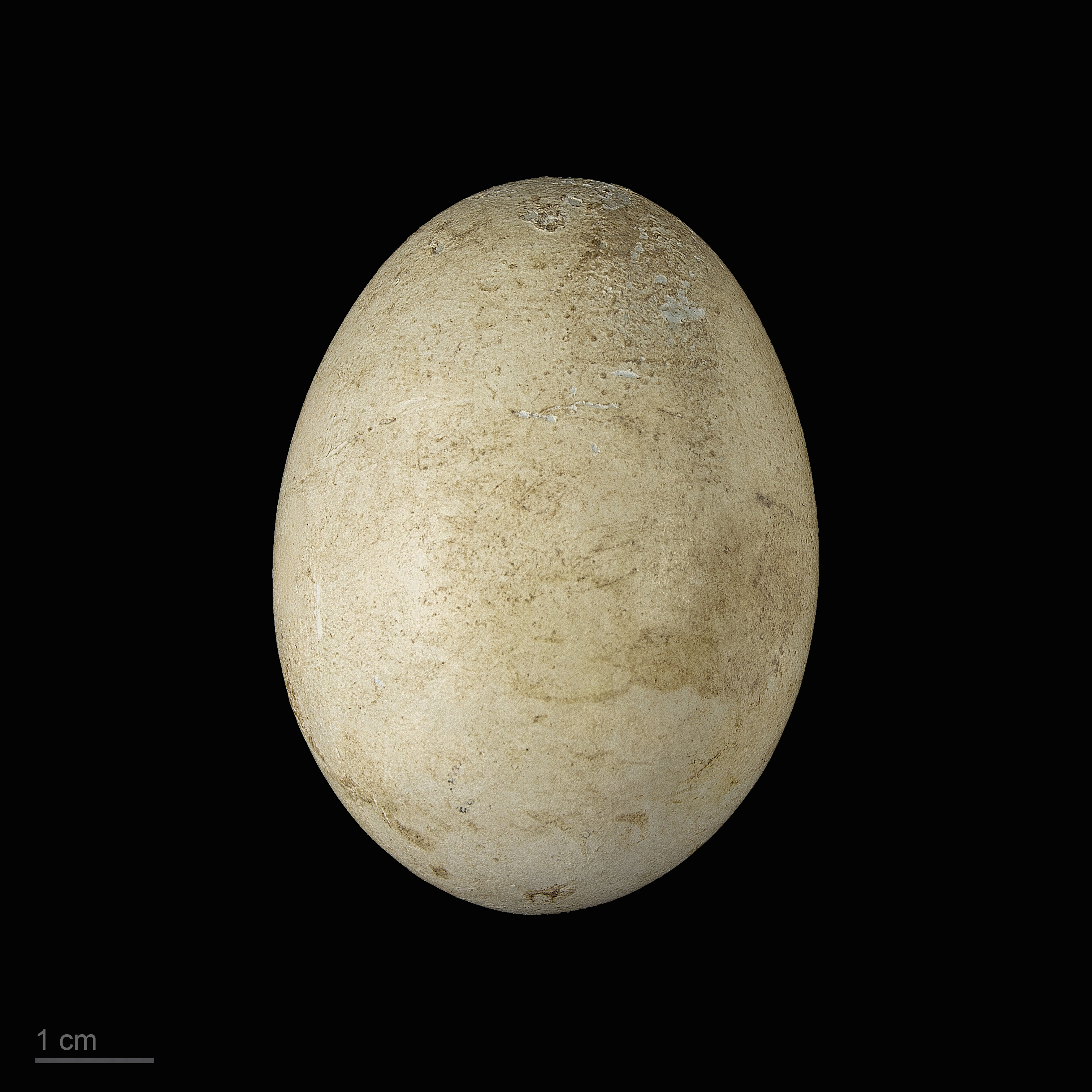 Eggs of blue-footed booby collection of Jacques Perrin de Brichambaut.